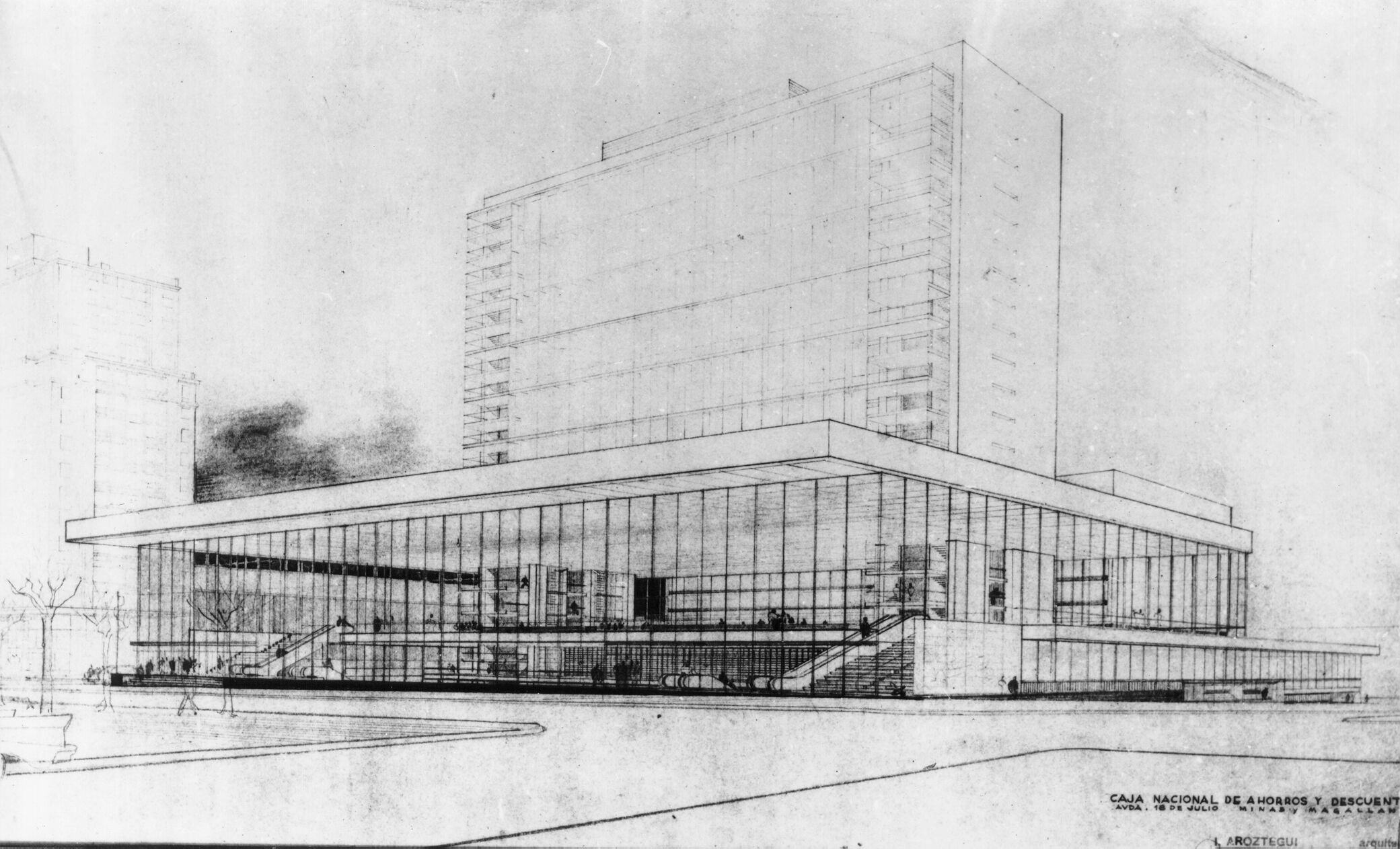 Dibujo técnico del proyecto del Arquitecto Ildefonso Aroztegui, actual sede 19 de Junio del Banco de la República Oriental del Uruguay, Montevideo, Uruguay